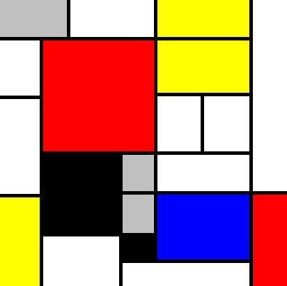 Digital reproduction of a painting by Piet Mondriaan